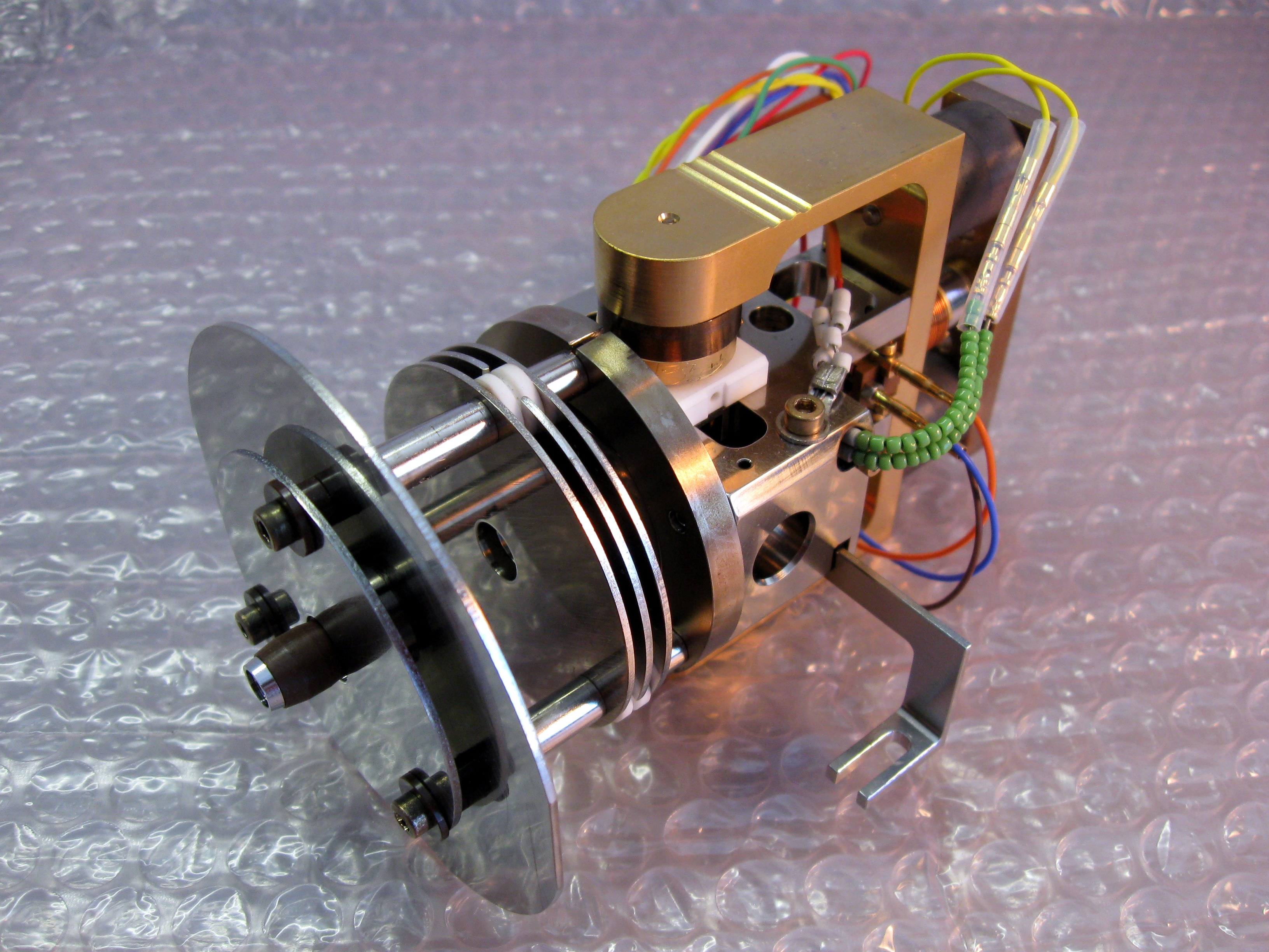 Ion source used in a 1990's mass-spectrometer, capable of both electron impact and chemical ionisation; sections visible (from left to right): ion lenses, heated ionisation source chamber, repeller lens; golden yoke provides magnetic field for electron path.